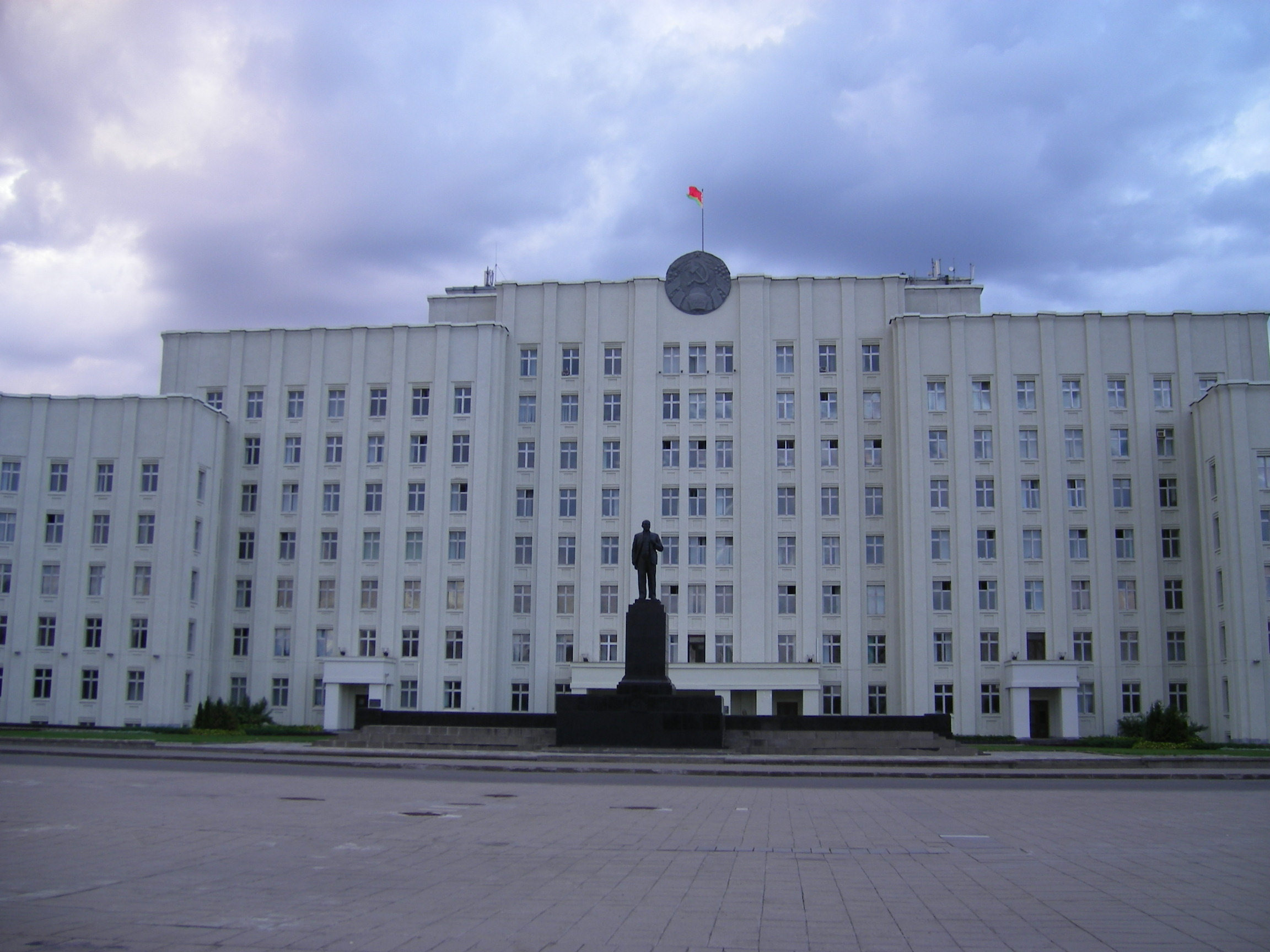 Mahilyow, Building of the Oblast Administration